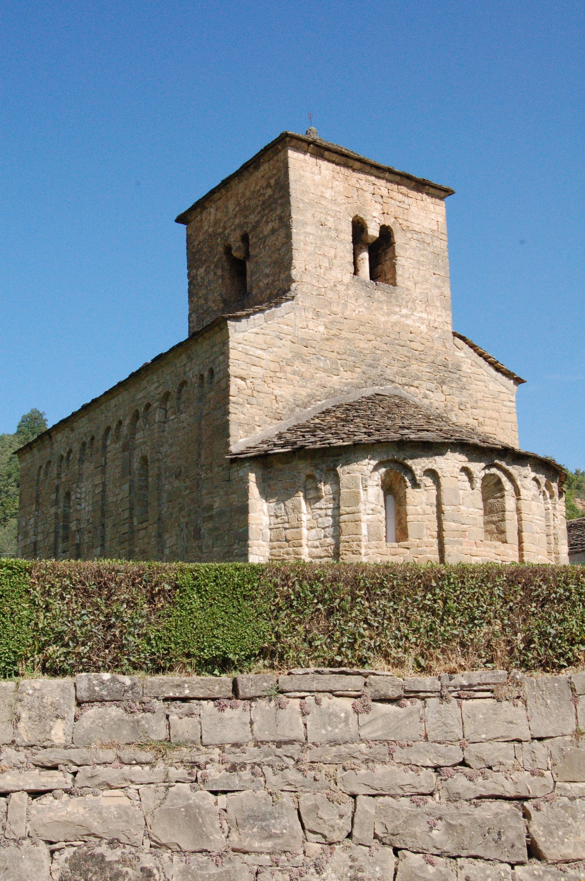 San Caprasio.